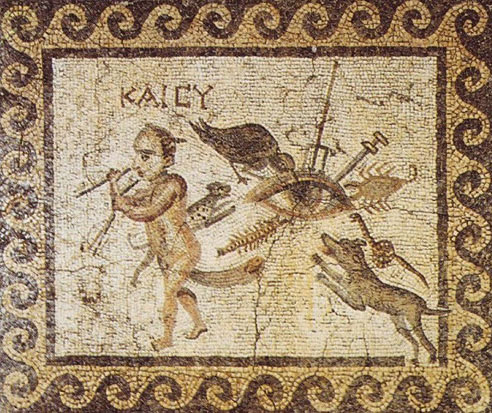 An evil spirit (kakodaimon) is depicted alongside the symbol of the evil eye. He holds spits, is horned (or winged browed), and has large, elongated members which trail between his leg. The evil eye is surrounded by a pecking raven, trident, sword, scorpion, serpent, centipede, and dog. It is a symbol of misfortune.